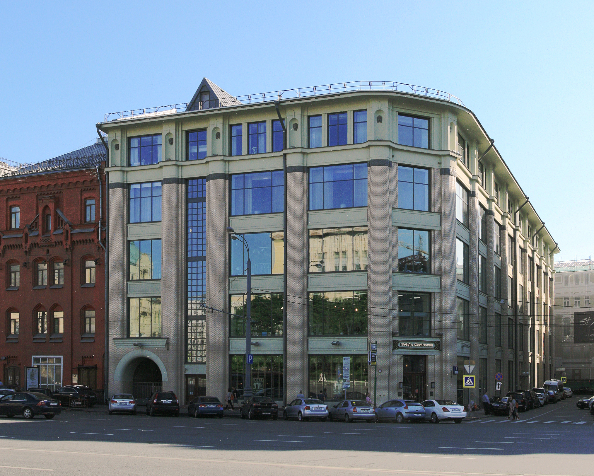 Building of F. Shekhtel, 1909-1911, Novaya Square 6/5/2, Moscow